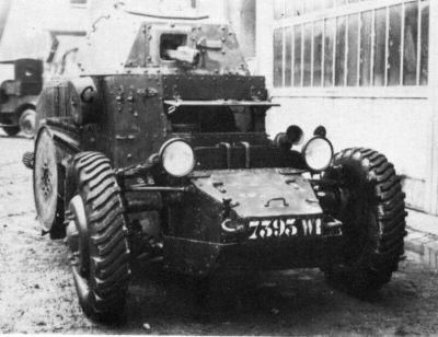 Gendron-SOMUA AMR 39 First Prototype with the additional metal wheel at the right side of the hull